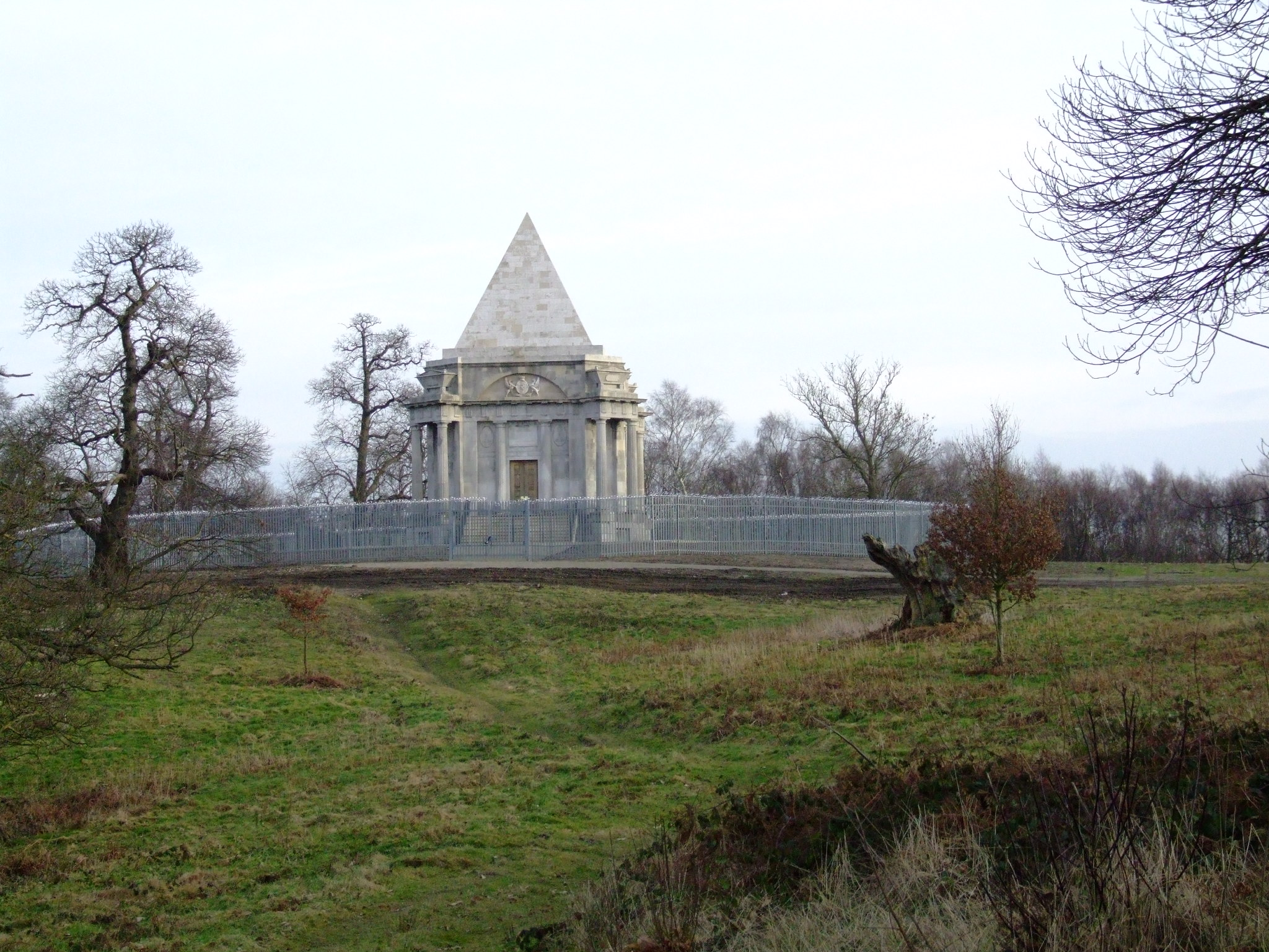 The Darnley Mausoleum approached from the hall. - OpenStreetMap (Info)